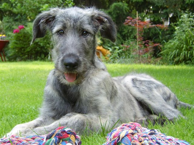 Irish wolfhound puppy named Fuko, from the kennel FESTINA, The owner is Hanna Woźna - Gil, Poland